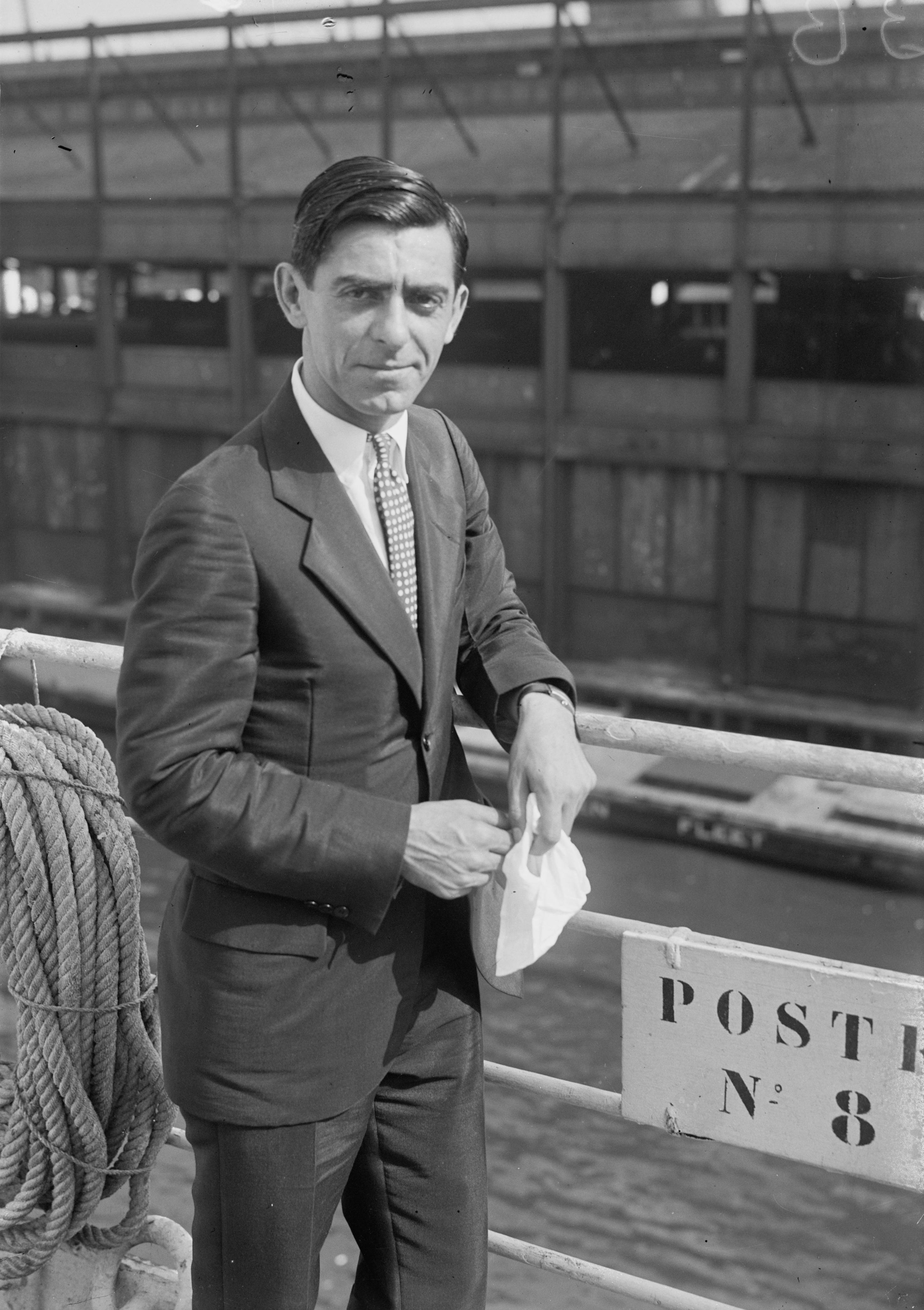 American actor Eddie Cantor Original LOC description: TITLE: Eddie Cantor CALL NUMBER: LC-B2- 6376-17[P&P] REPRODUCTION NUMBER: LC-DIG-ggbain-38208 (digital file from original negative) No known restrictions on publication. SUMMARY: General information about the Bain Collection is available at MEDIUM: 1 negative : glass ; 5 x 7 in. or smaller. CREATED/PUBLISHED: [no date recorded on caption card] NOTES: Title from unverified data provided by the Bain News Service on the negatives or caption cards. Forms part of: George Grantham Bain Collection (Library of Congress). Temp. note: Batch eight loaded. FORMAT: Glass negatives. REPOSITORY: Library of Congress Prints and Photographs Division Washington, D.C. 20540 USA DIGITAL ID: (digital file from original neg.) ggbain 38208 CARD #: ggb2006013620